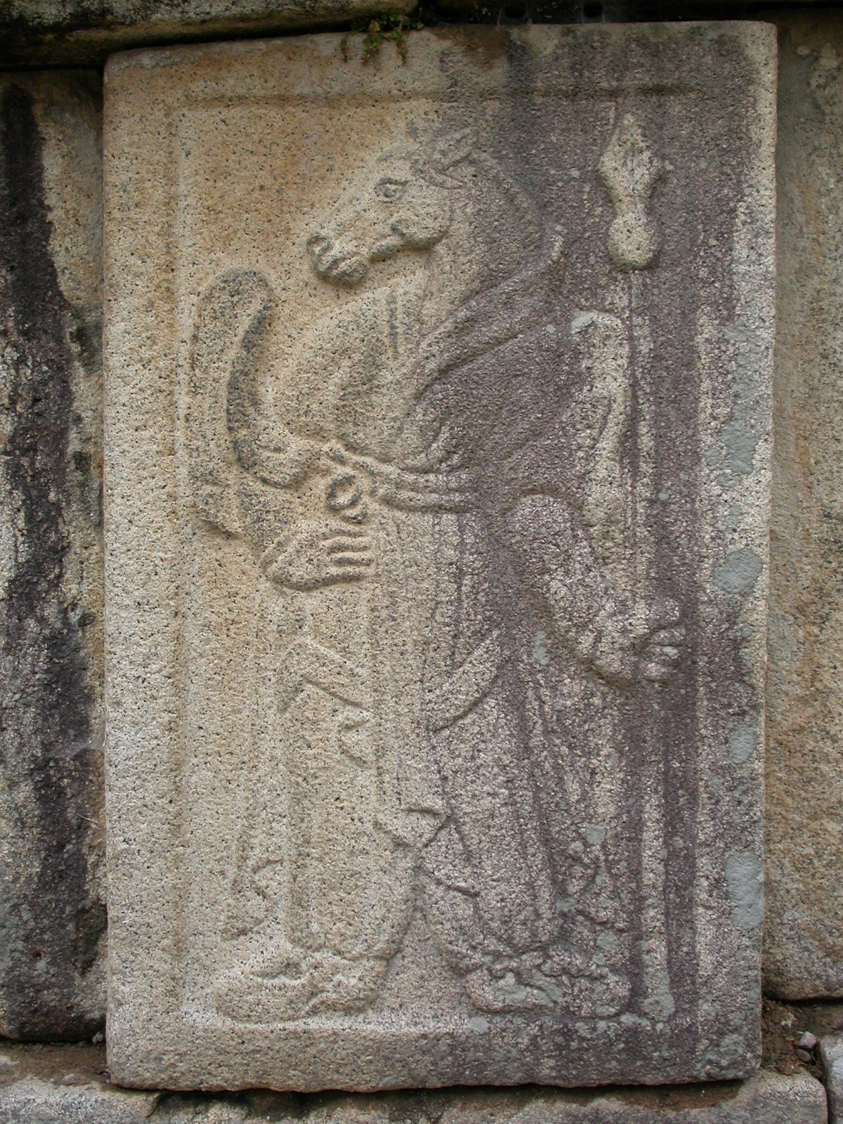 Tomb of General Kim Yusin